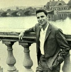 Photo of Lazarre Seymour Simckes, Cambridge, MA.